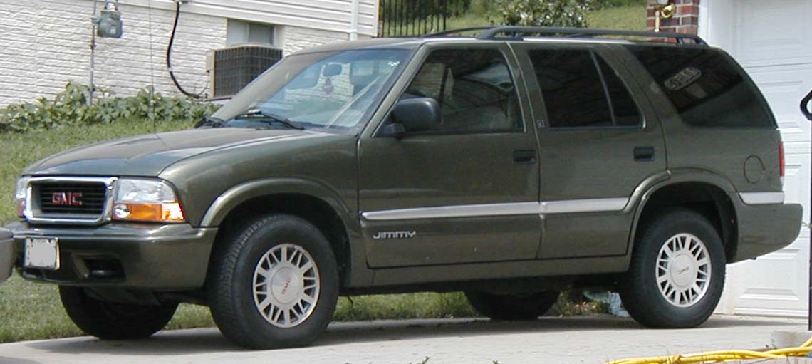 1995-2005 GMC S-15 Jimmy photographed in USA.